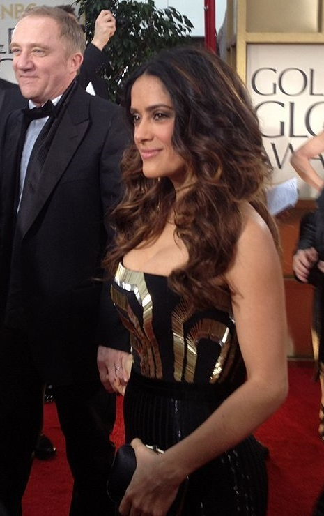 69th Golden Globes Awards (2012) with actress Salma Hayek and her husband